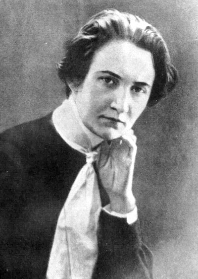 Yevgenia Bosch (Євгенія Бош), a Bolshevik activist, politician, and member of the Soviet government in Ukraine during the revolutionary period